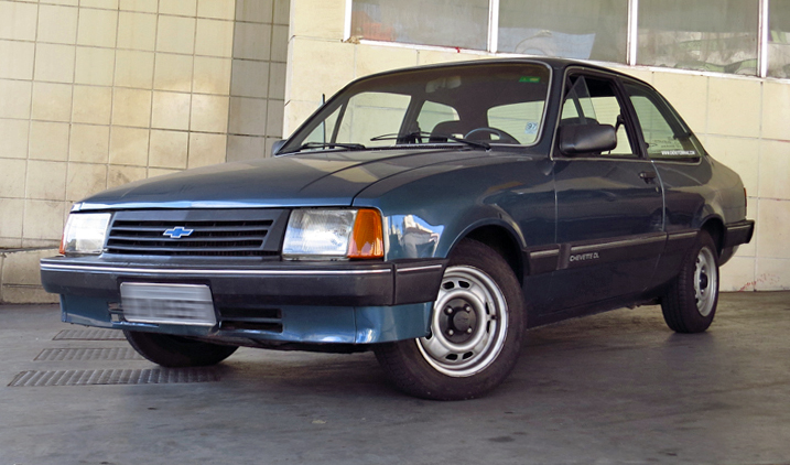 Nineties' Chevrolet Chevette DL 2-door sedan